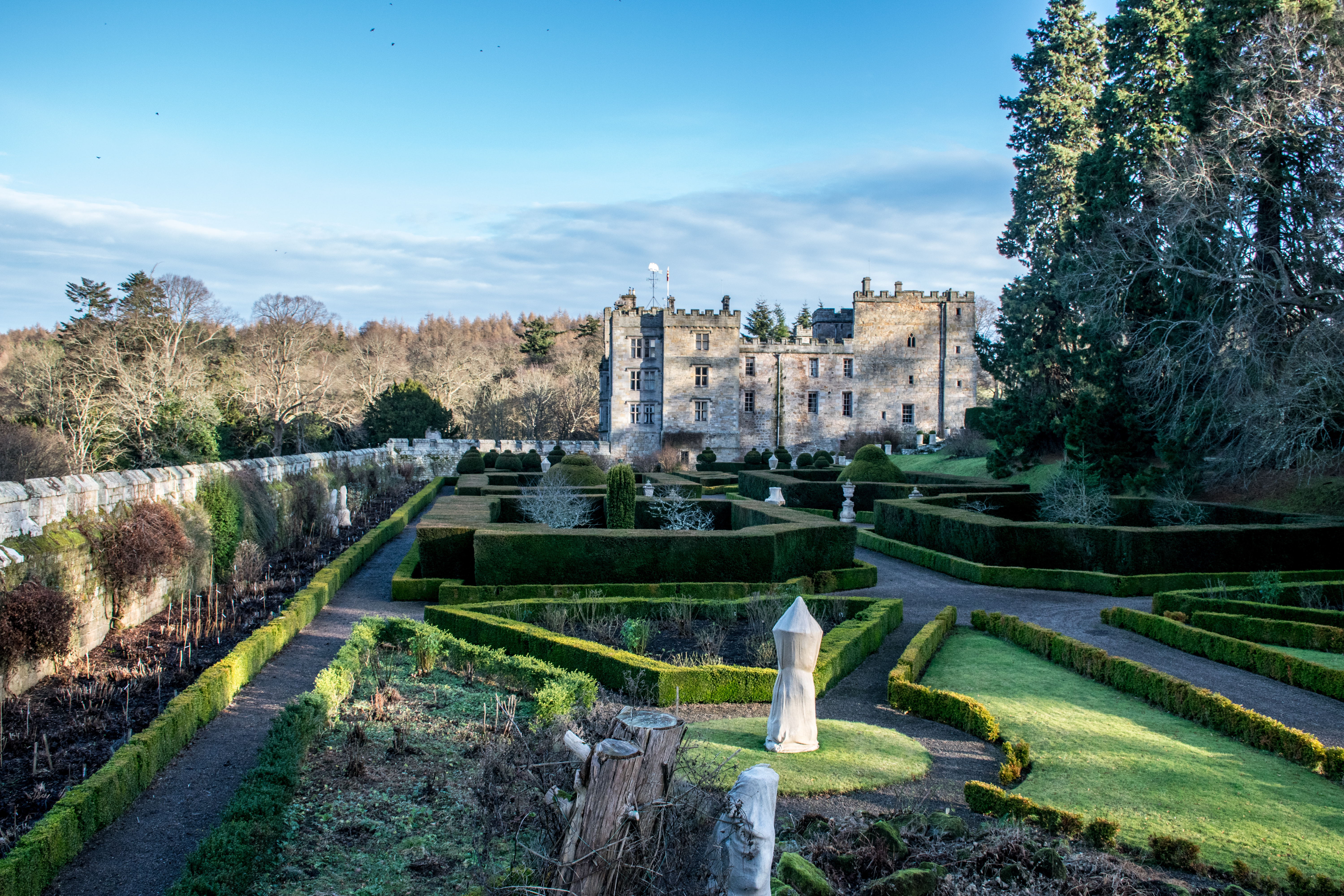 The west front of Chillingham Castle, Northumberland, England, viewed across the castle's Italian Garden.